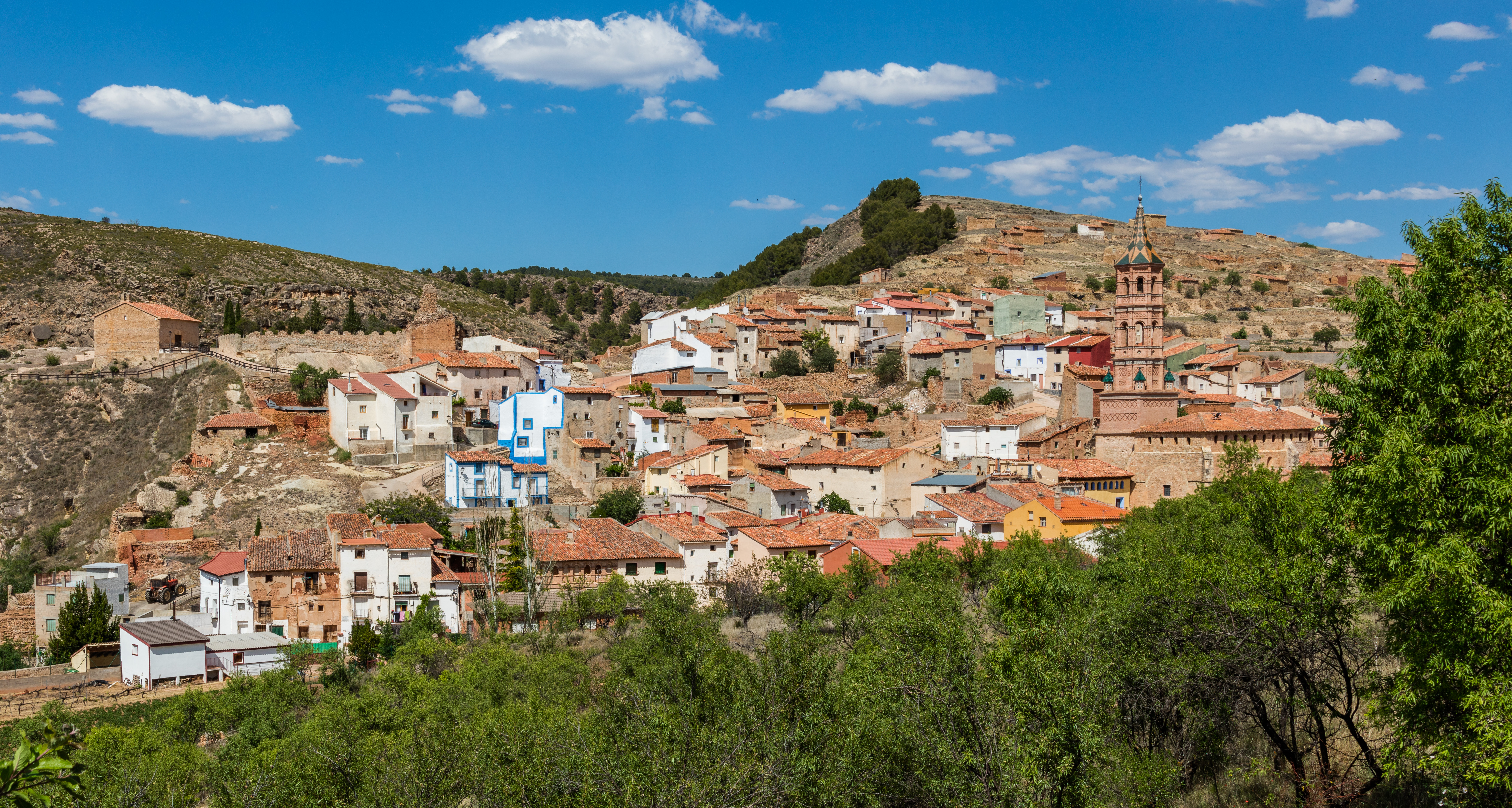 General view of the village of Monterde, province of Zaragoza, Aragon, Spain. The most important heritage of Monterde, that has a population of 198 (data from 2016), are the church of the Assumption (on the right) of mudéjar-style and erected in the 15th century and its medieval castle (top left) from the 14th century.